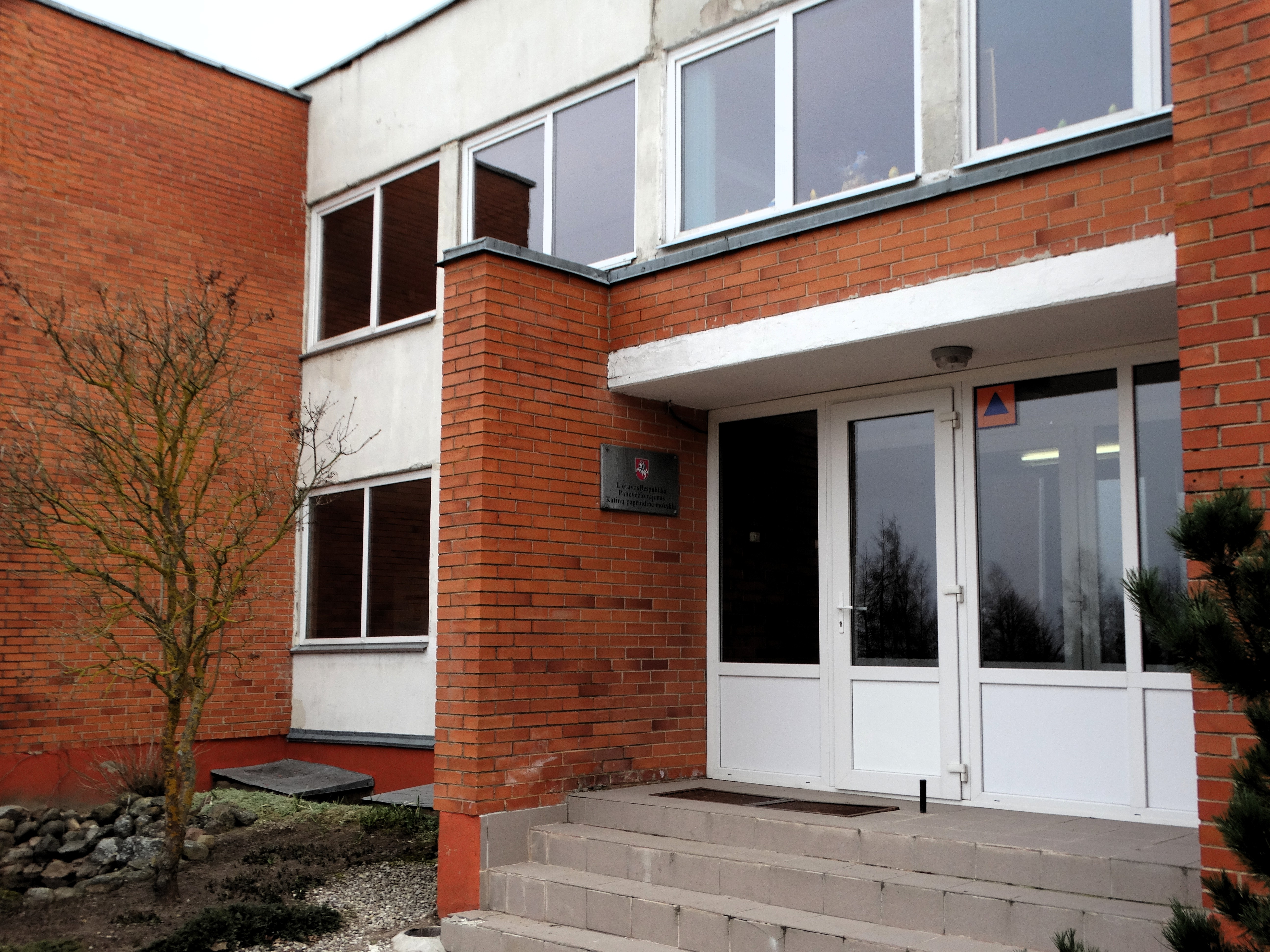 Katinai, basic school, Panevėžys District, Lithuania